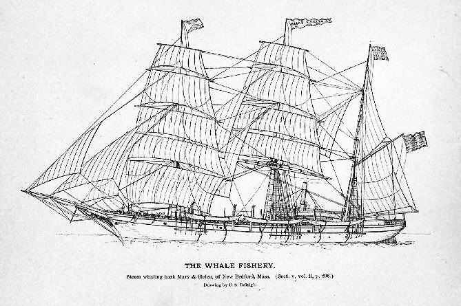 Line drawing / print of Whaling Ship /Steam Bark, Mary & Helen of New Bedford (Massachusetts, USA).